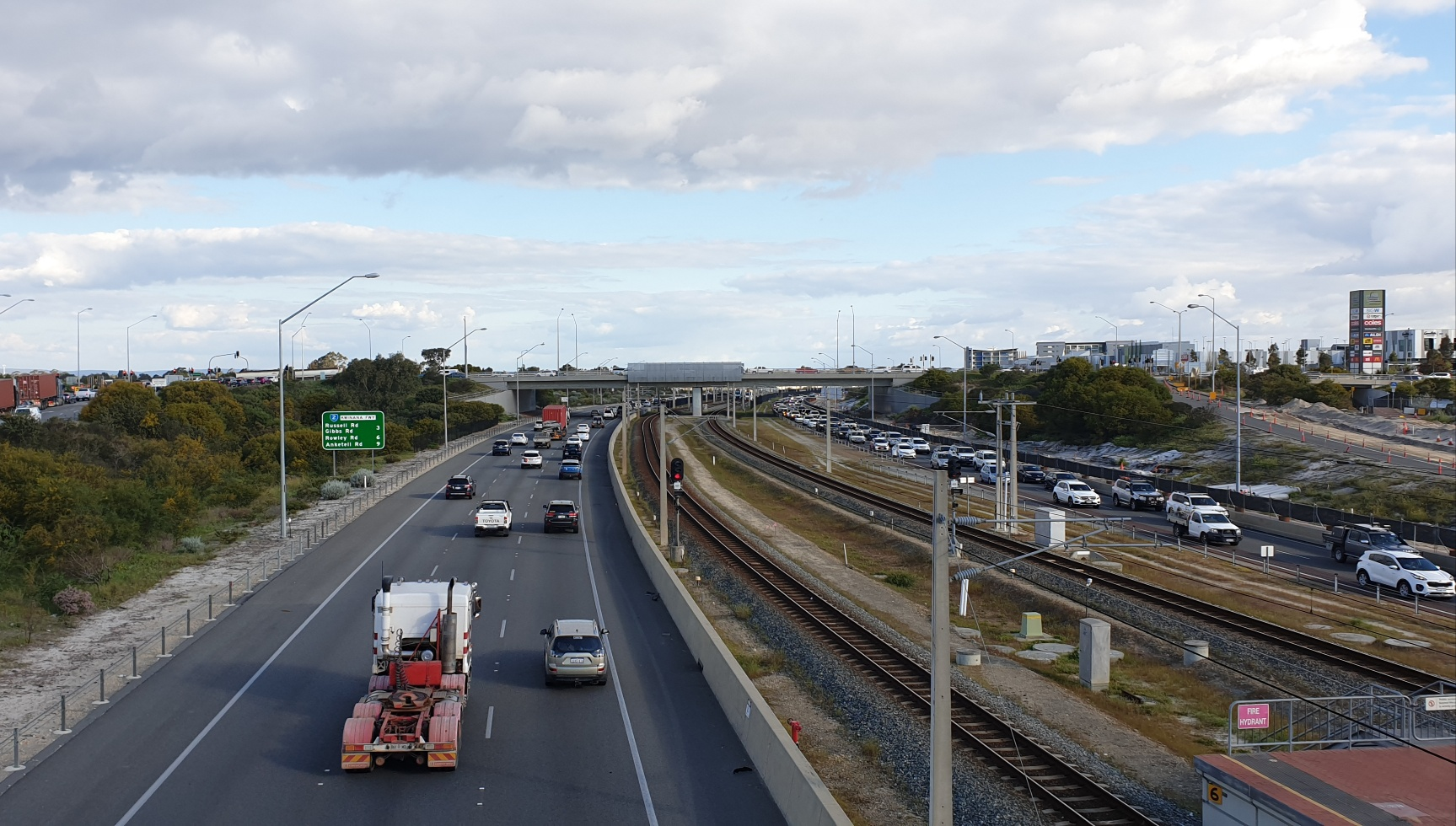 The Kwinana Freeway looking south from Cockburn Central in 2019. Note the northbound carriageway widening works.